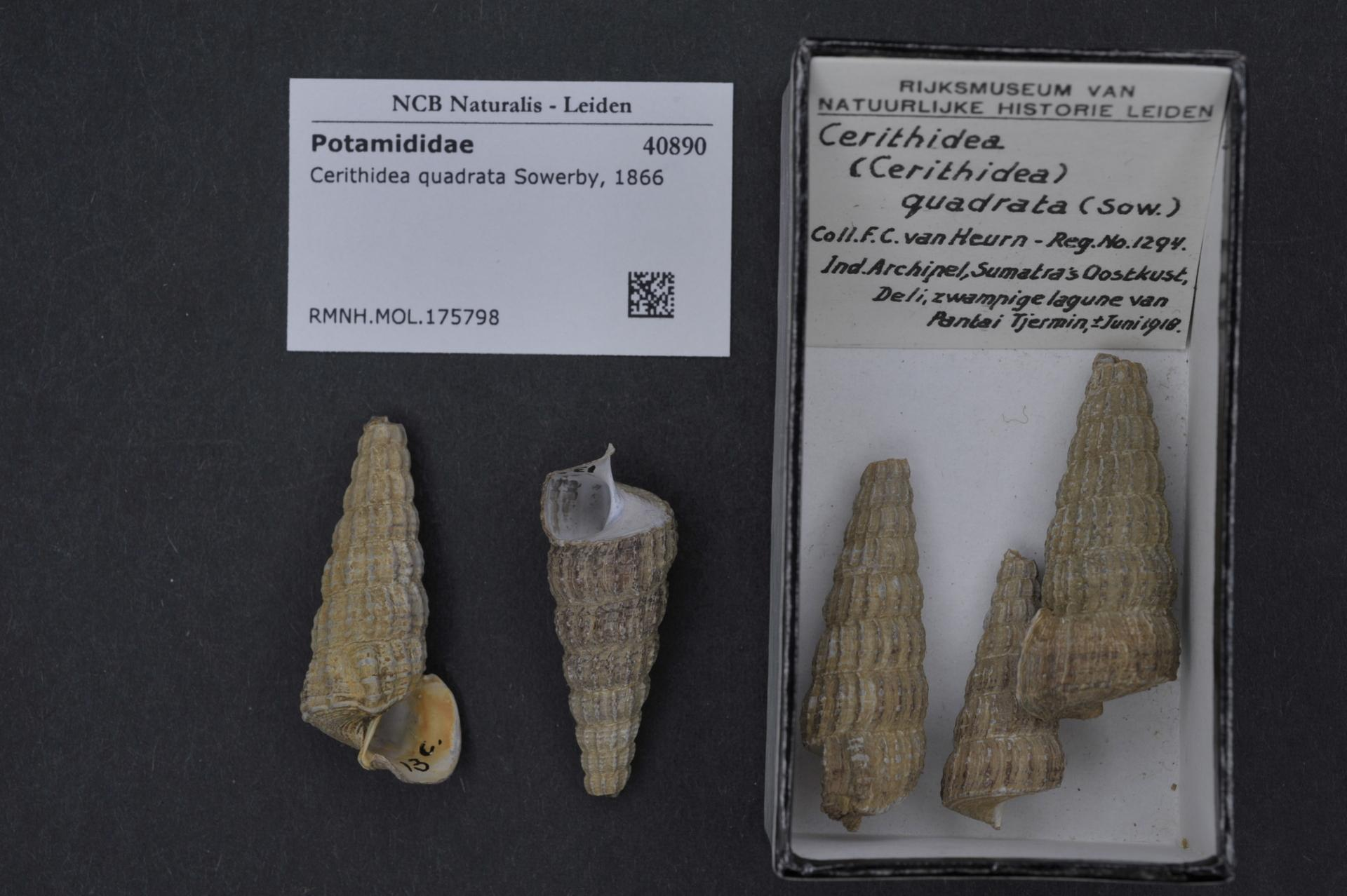 Cerithidea quadrata Sowerby, 1866